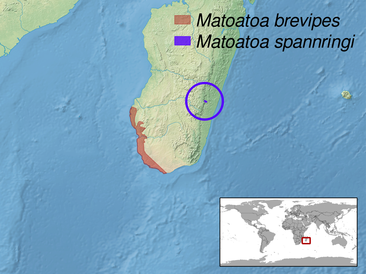 Geographic distribution of the genus Matoatoa. Included species: Matoatoa brevipes (Native: Madagascar) and Matoatoa spannringi (Possibly extinct: Madagascar)